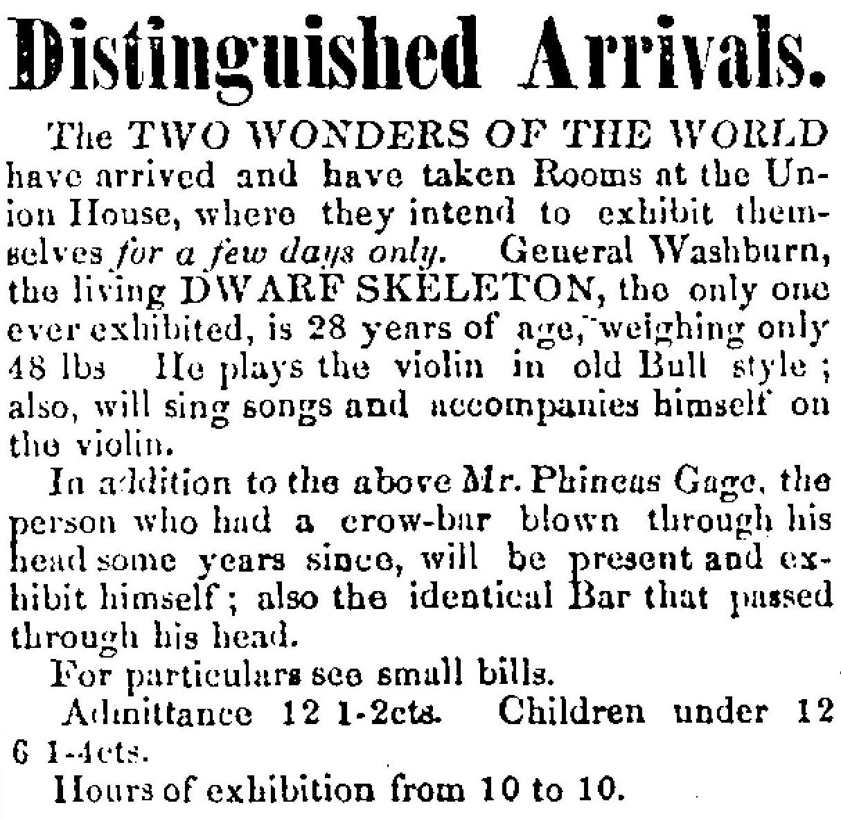 Newspaper item, "Distinguished Arrivals", advertising a public appearance of